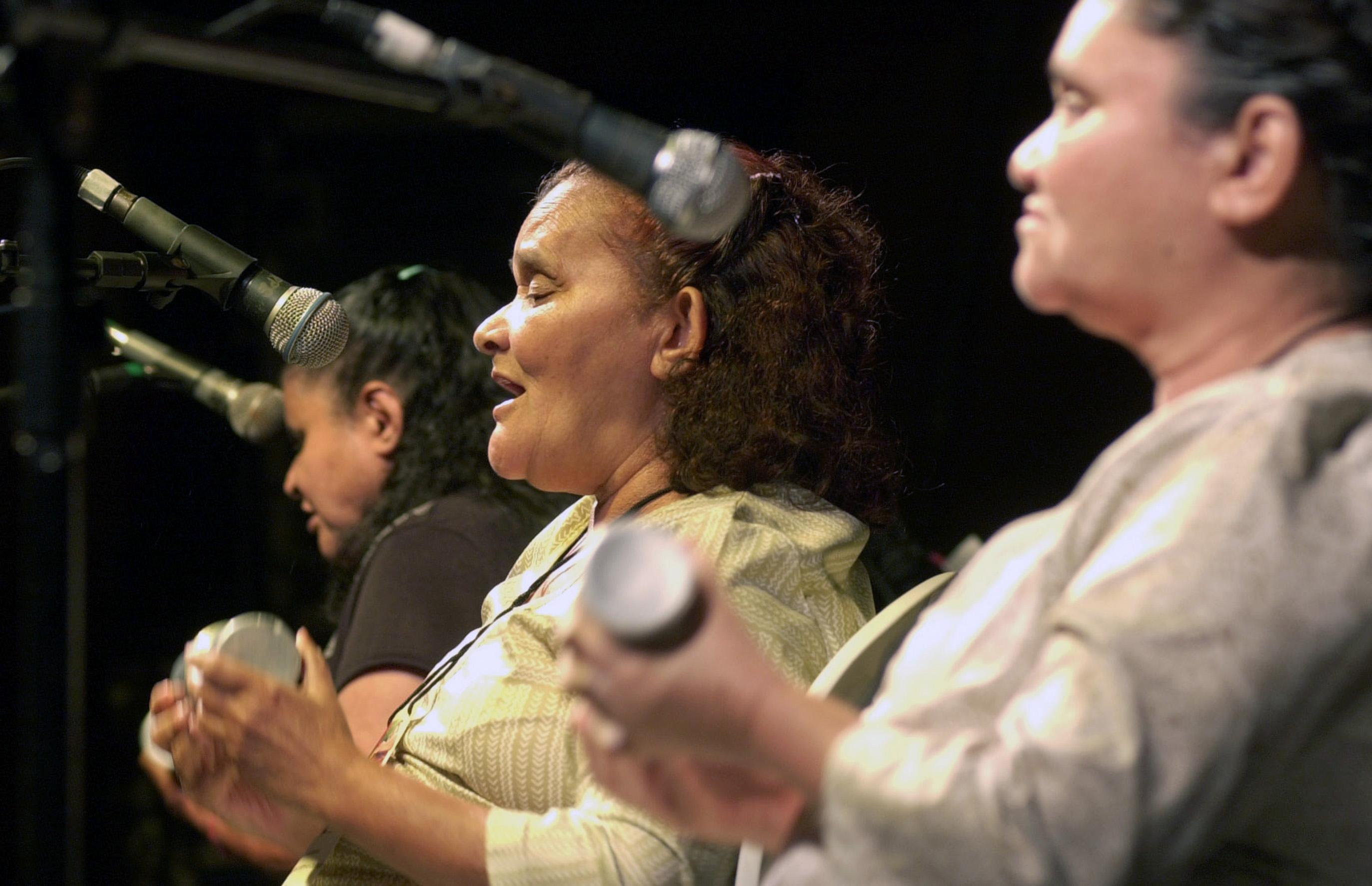 Photo by Fabio Pozzebom/ABr CCBY3.0